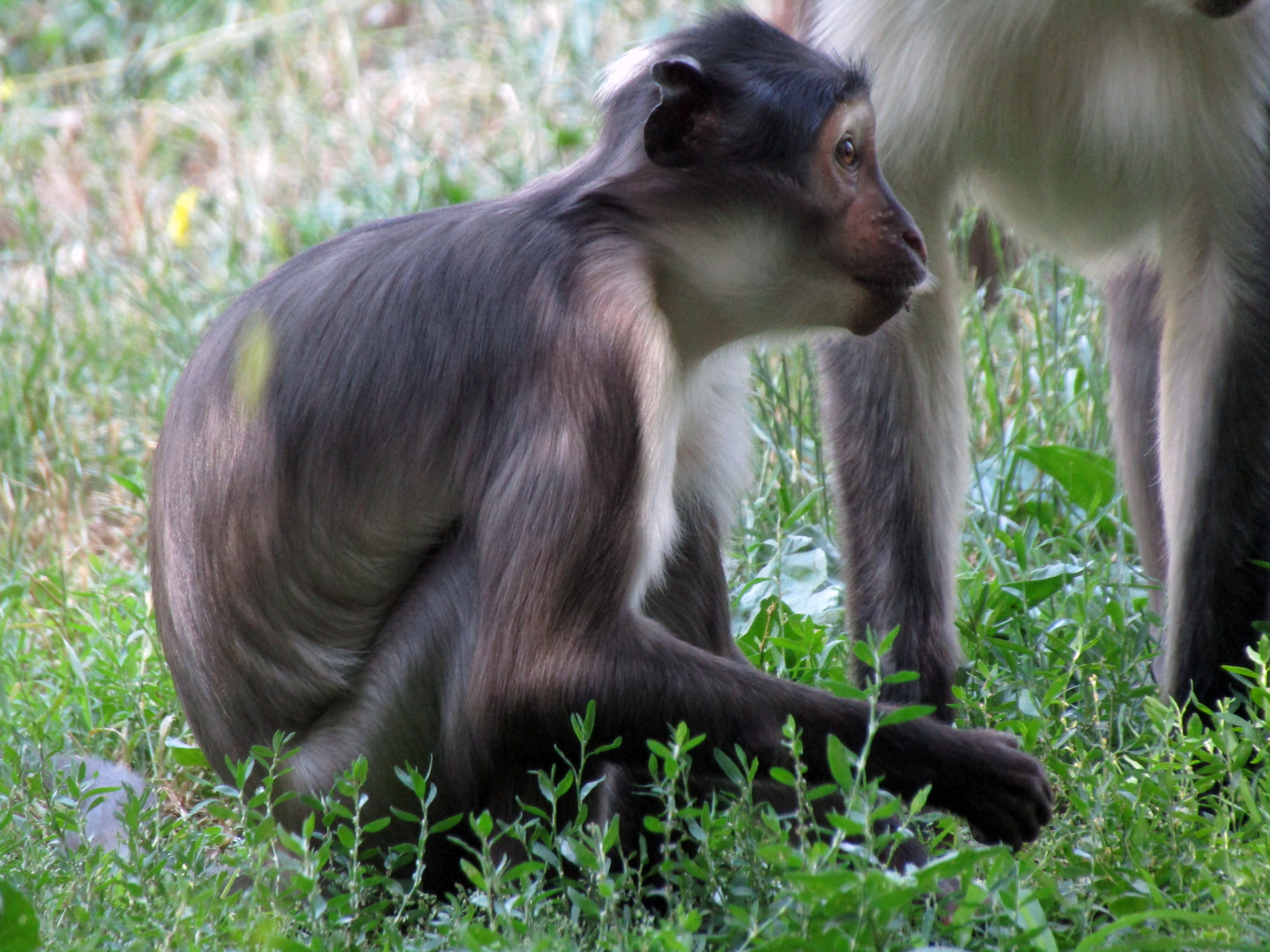 Cercocebus atys is an ape of Africa, it's a baby.